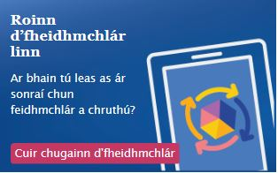 Screenshot from Open Data Portal